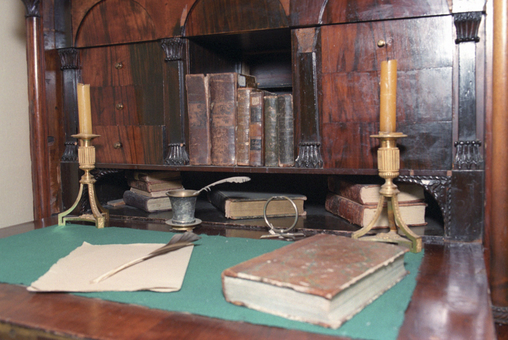 “Alexander Pushkin's study”. Alexander Pushkin's table. The Hannibal-Pushkins' house in the Petrovskoye village. The Alexander Pushkin State Memorial History and Literature Museum and Nature Sanctuary "Mikhailovskoye."